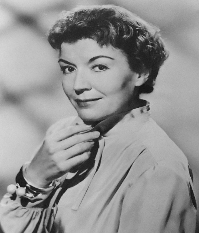 Photo of actress Cathy Lewis. Note unwatermarked copy of photo has been uploaded. There are no copyright marks on the photo which can be seen at links above and on first upload here.